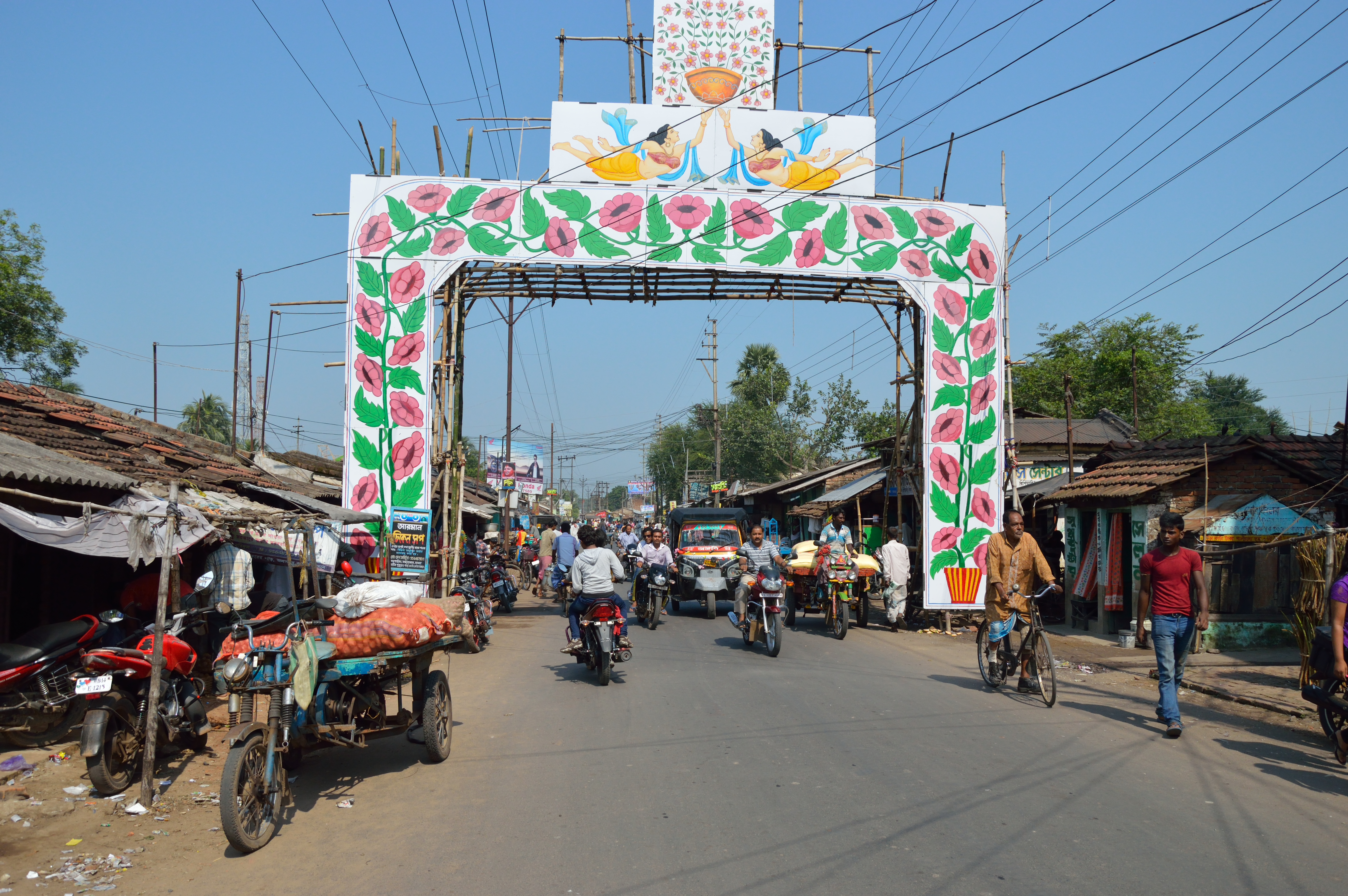 Photographed in Howrah.